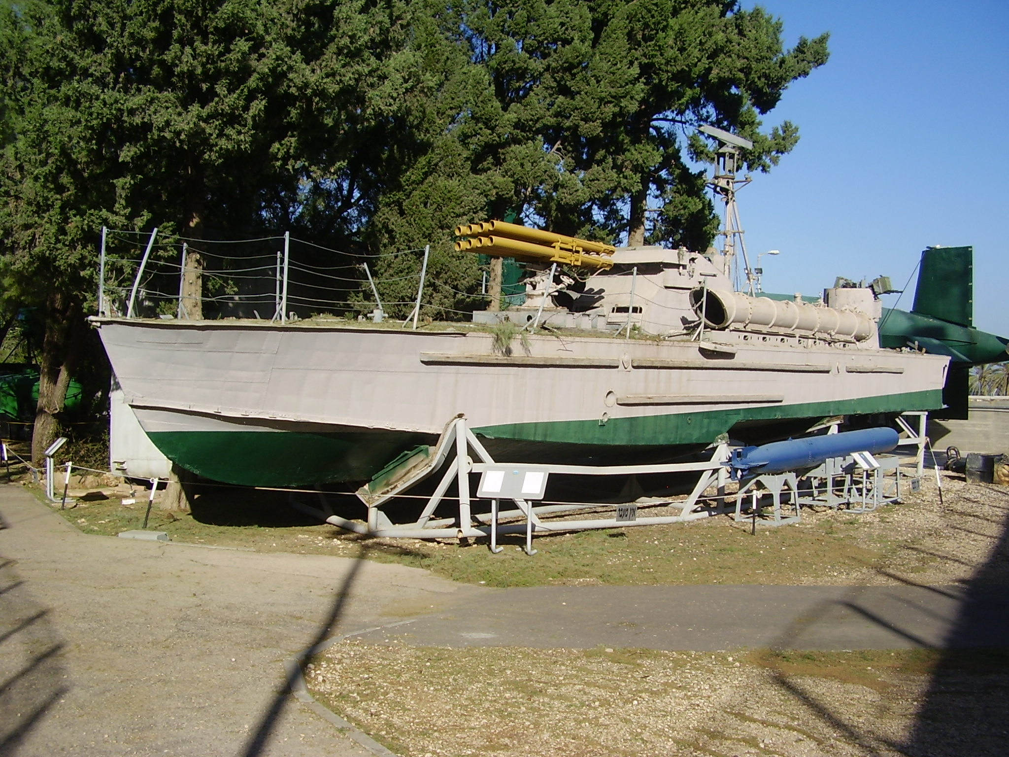 Egyptian torpedo boat k-12